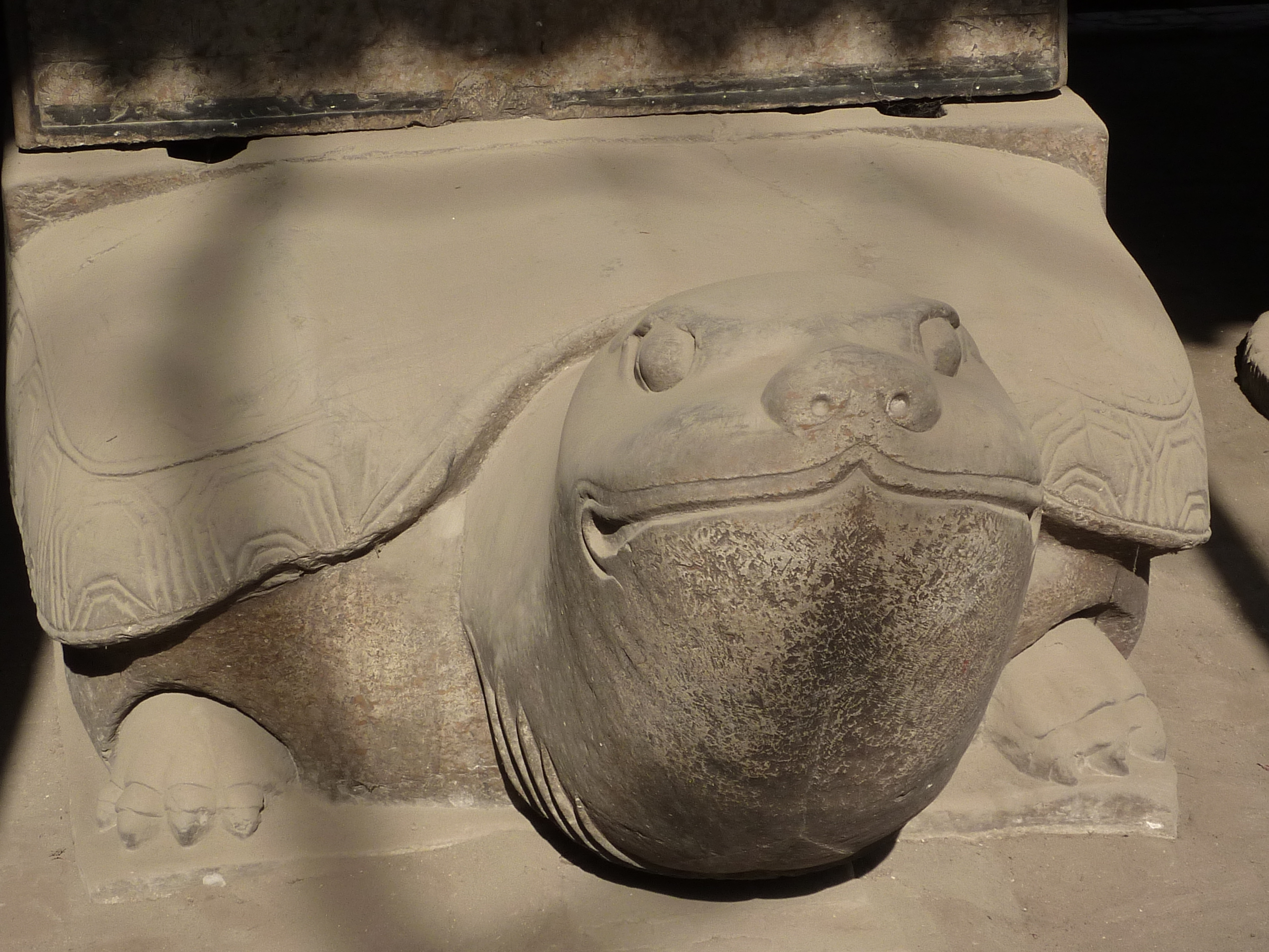 The 3rd pavilion, counting from the west, in the southern row of the Thirteen Stele Pavilions of the Temple of Confucius, Qufu. This pavilion houses 2 tortoise-borne steles, both facing south. This is the western turtle, from the Song Dynasty.